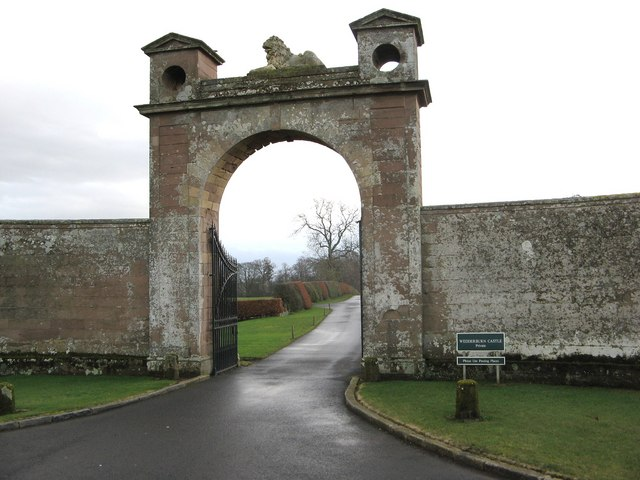 Gateway, Wedderburn Castle The castle is in a neighbouring square and is hired out for fully serviced accommodation and weddings.